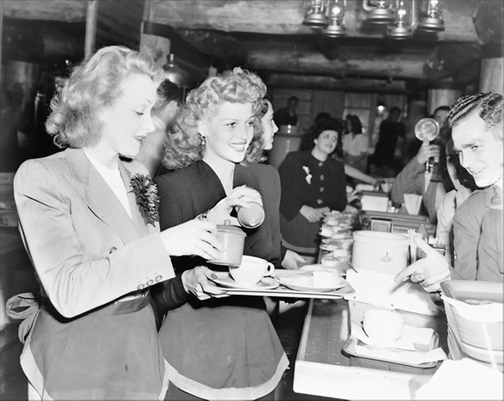 Photograph of Marlene Dietrich and Rita Hayworth serving food to soldiers at the Hollywood Canteen